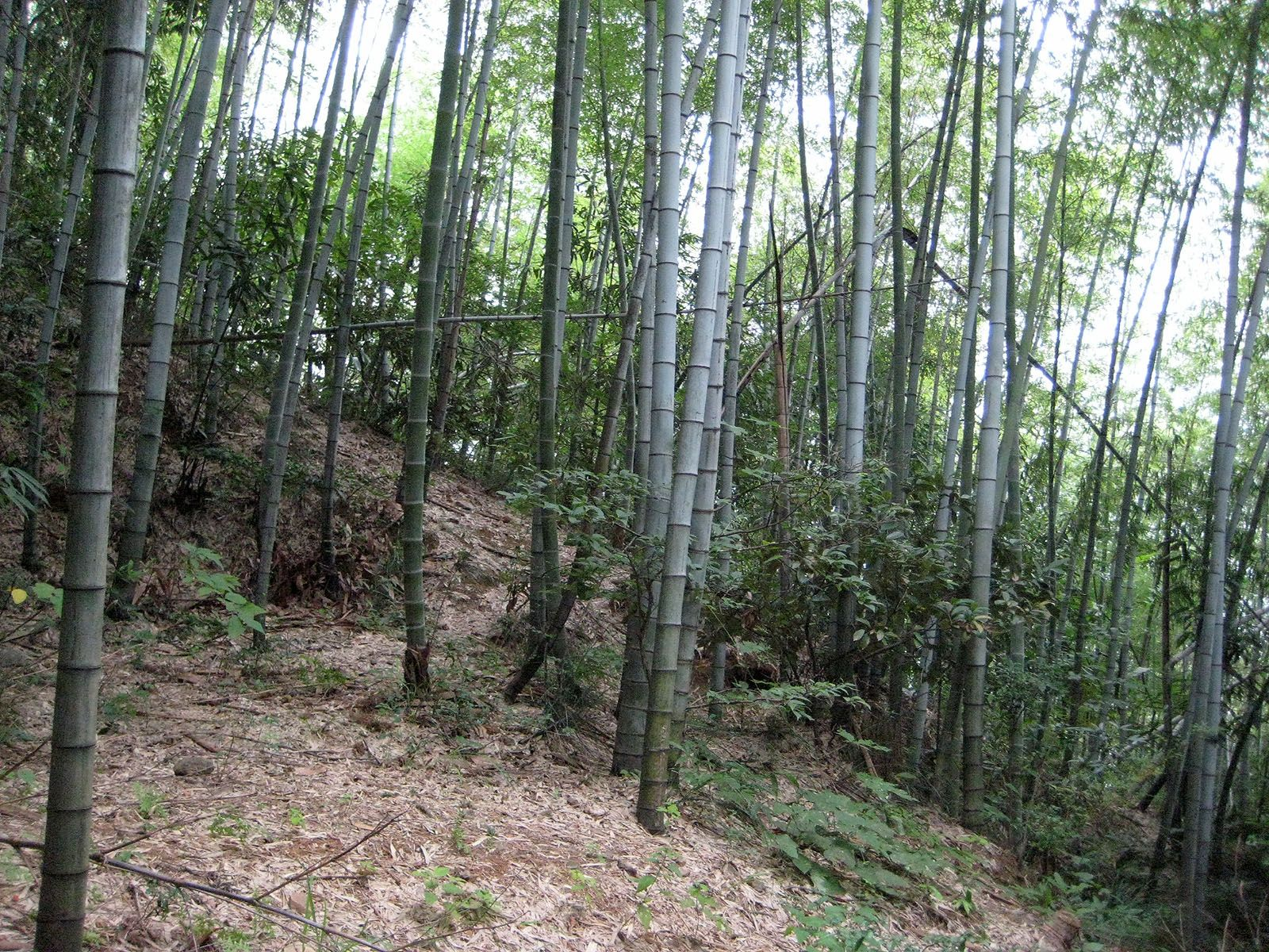 Bamboo forest at Huang Shan, China